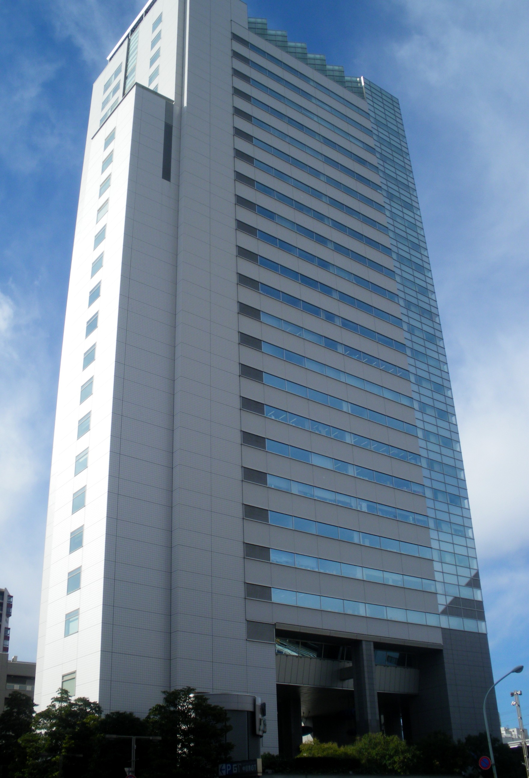 A photo of Nakameguro GT(Gate Town)tower ,Nakamegoro,Meguro-ku,Tokyo,Japan.